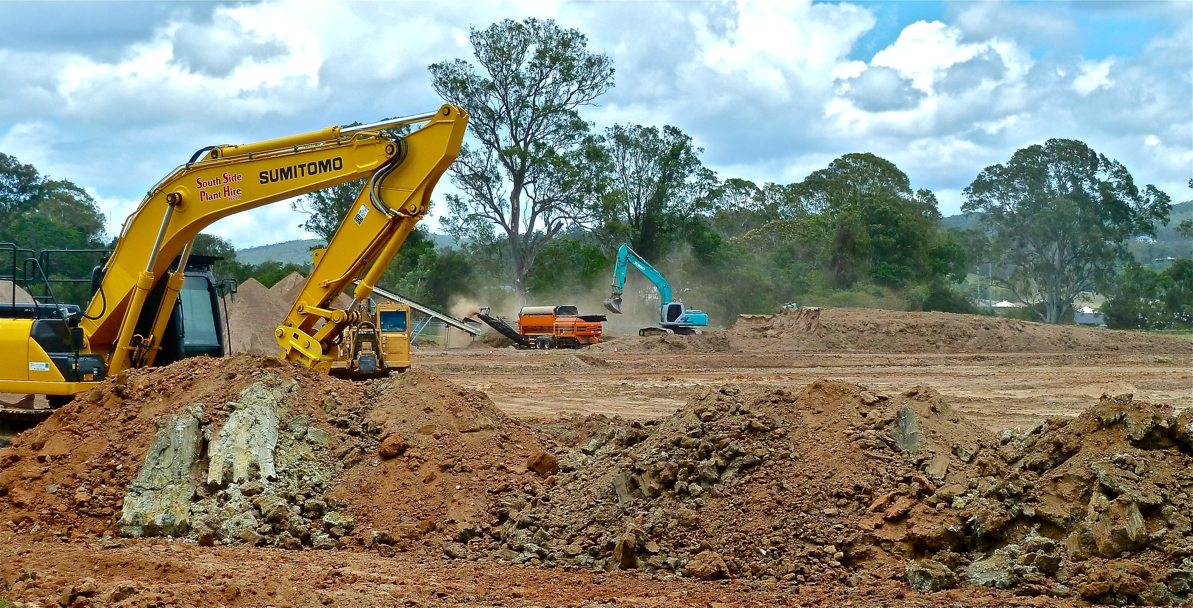 Tractor depicted in a construction engineering project